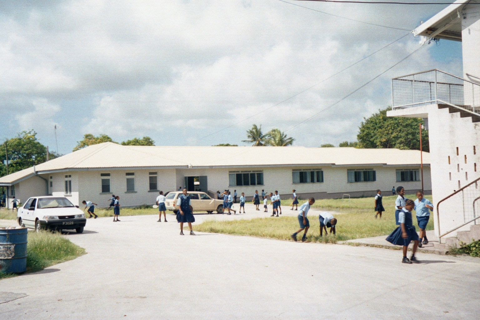 St. Lawrence Primary School, Christ Church, Barbados